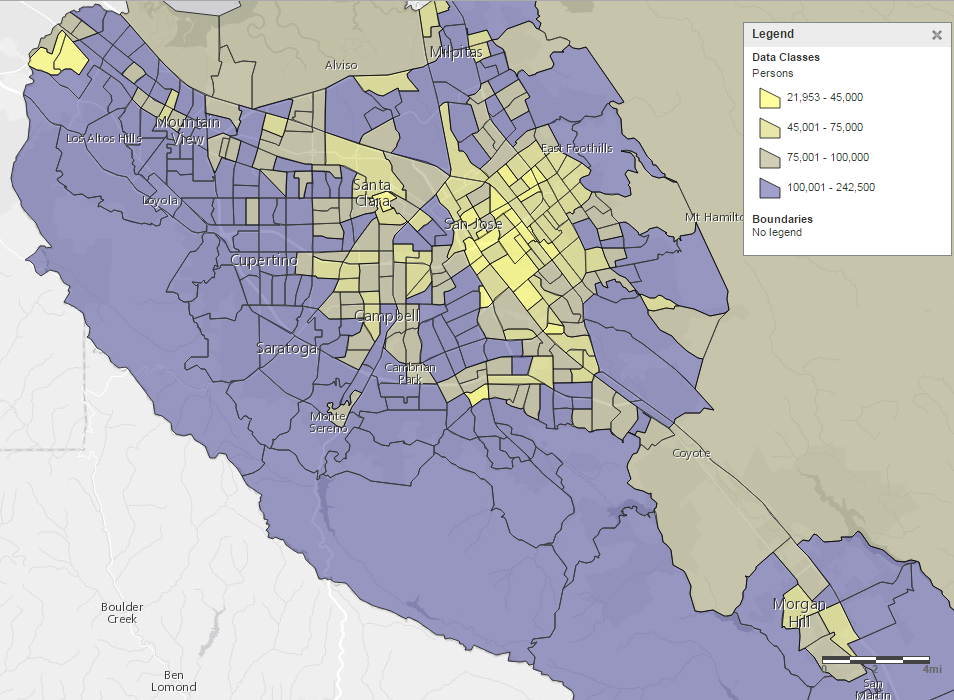 Thematic map showing median household income across central Santa Clara County